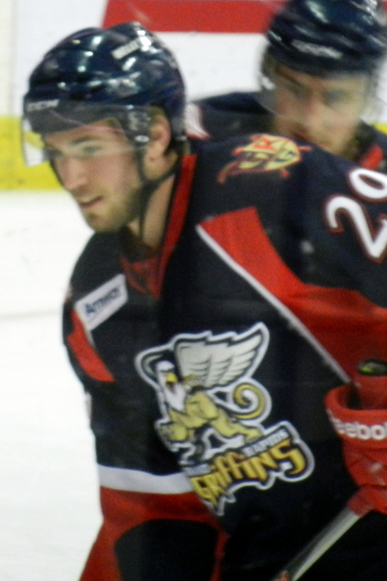 Landon Ferraro playing for the American Hockey League's Grand Rapids Griffins